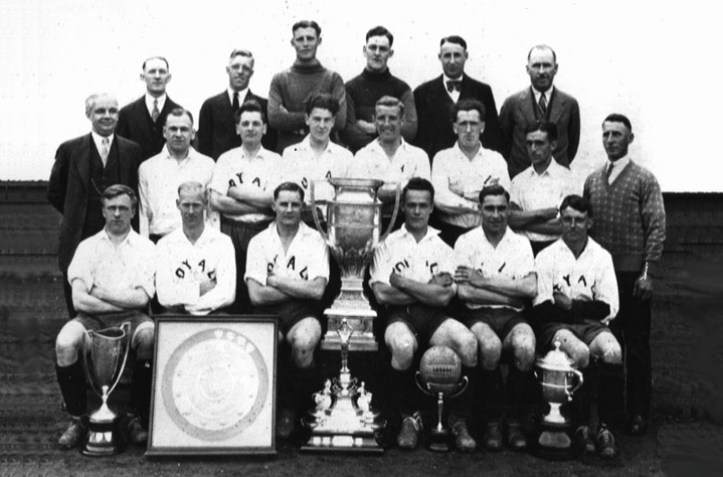 The 1928 Westminster Royals, winners of their first Connaught Cup with Jack 'Jock' Coulter (middle row, third from the right) plied the front lines.